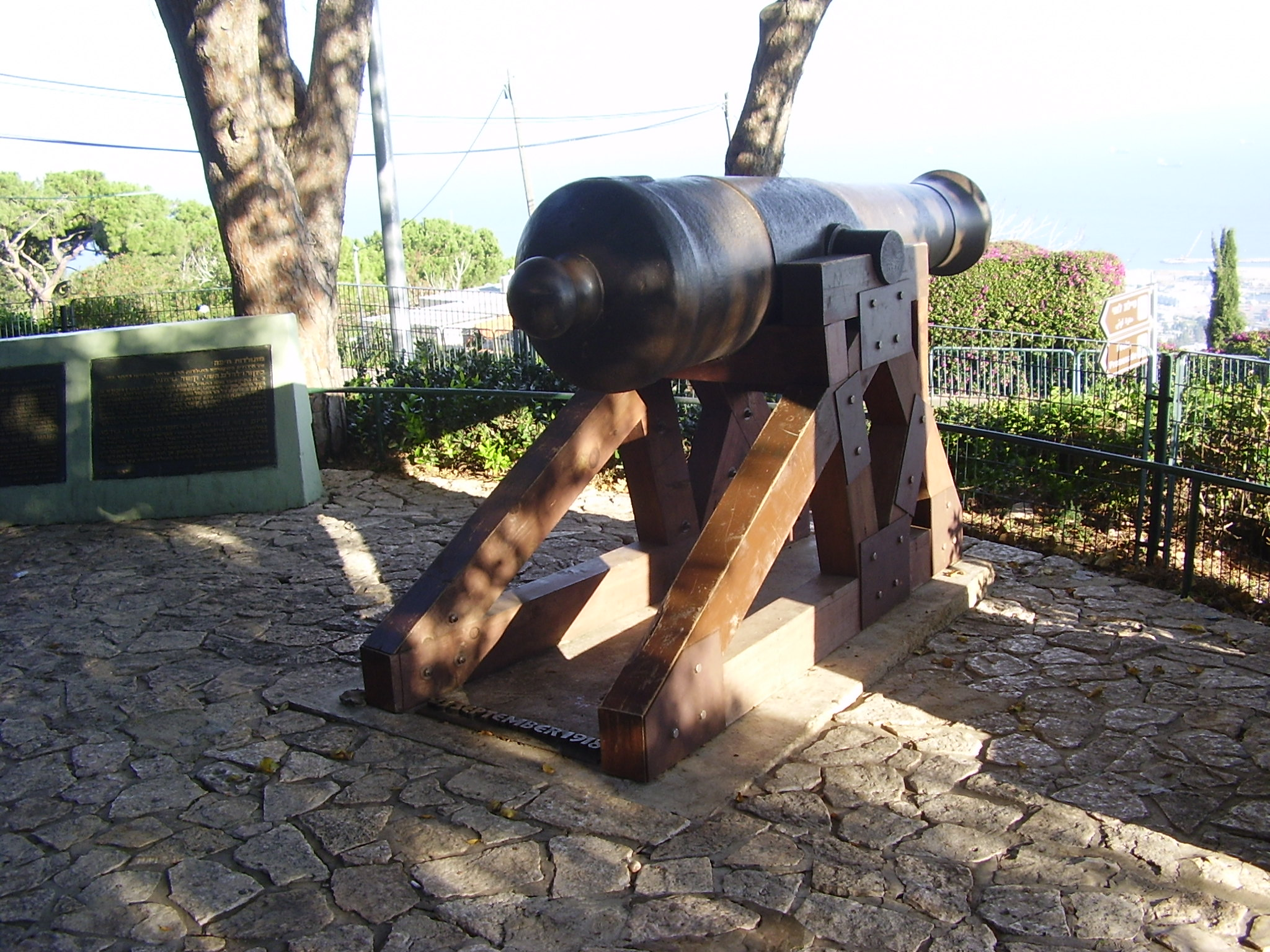 old turkish cannon in haifa